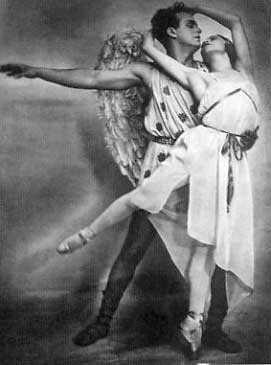 Galina Ulanova and Mikhail Dudko in the Eros ballet, 1923 Anonymous photographer